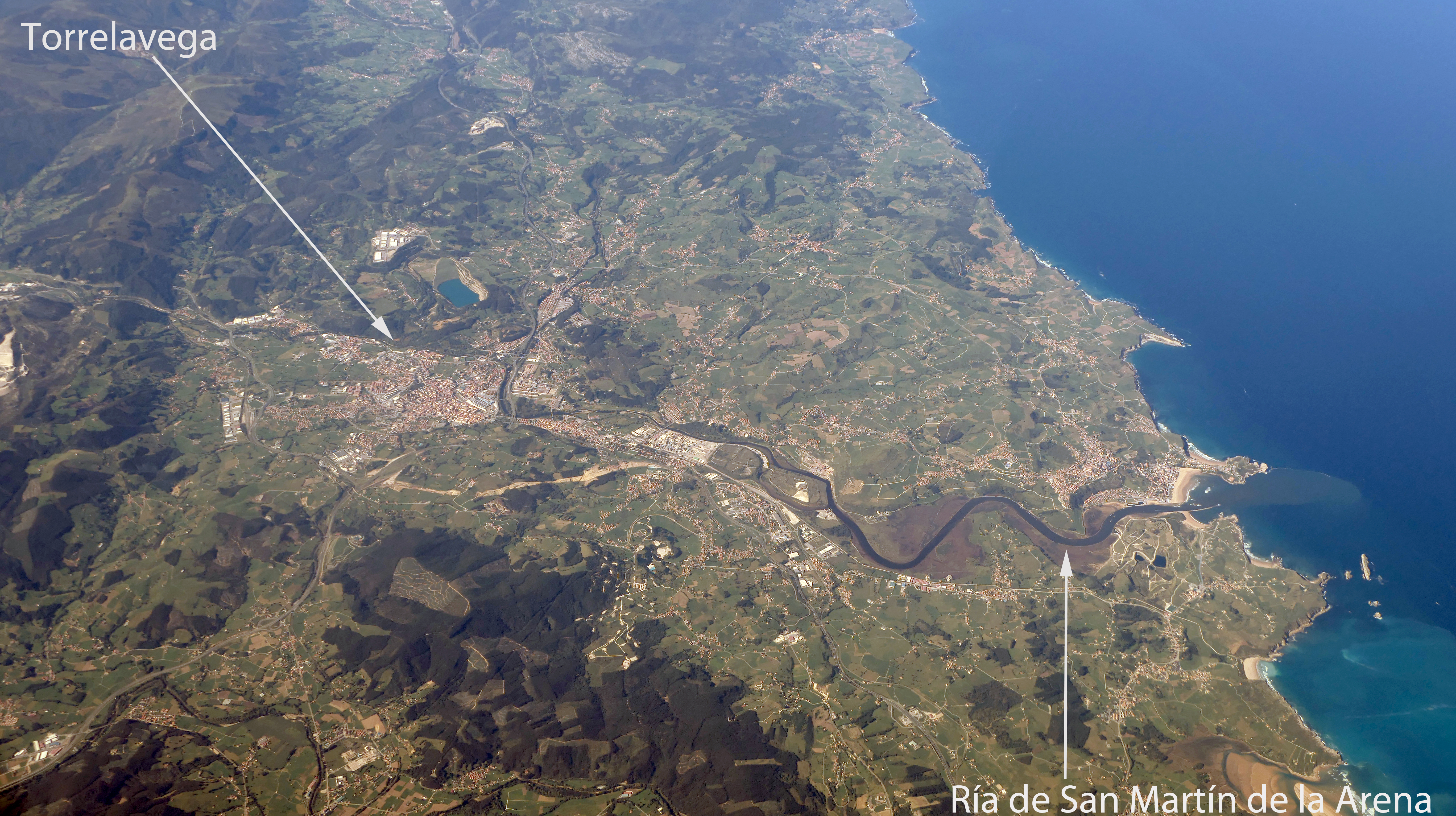 An aerial view of part of the province of Cantabria in the north of Spain, including the town of Torrelavega.